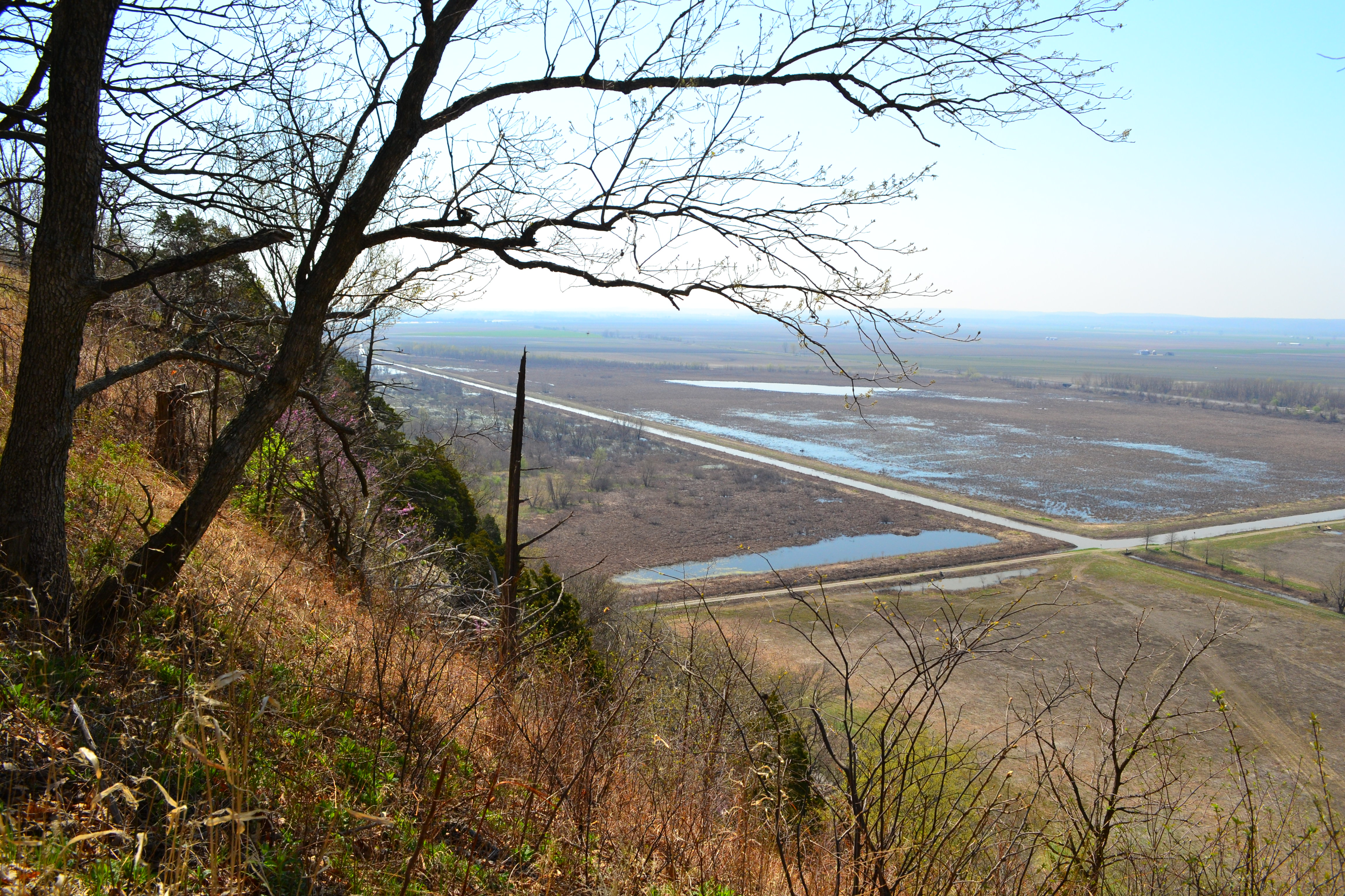 Overlooking Kidd Lake Marsh State Natural Area on the American Bottom from Fults Hill Prairie State Natural Area.